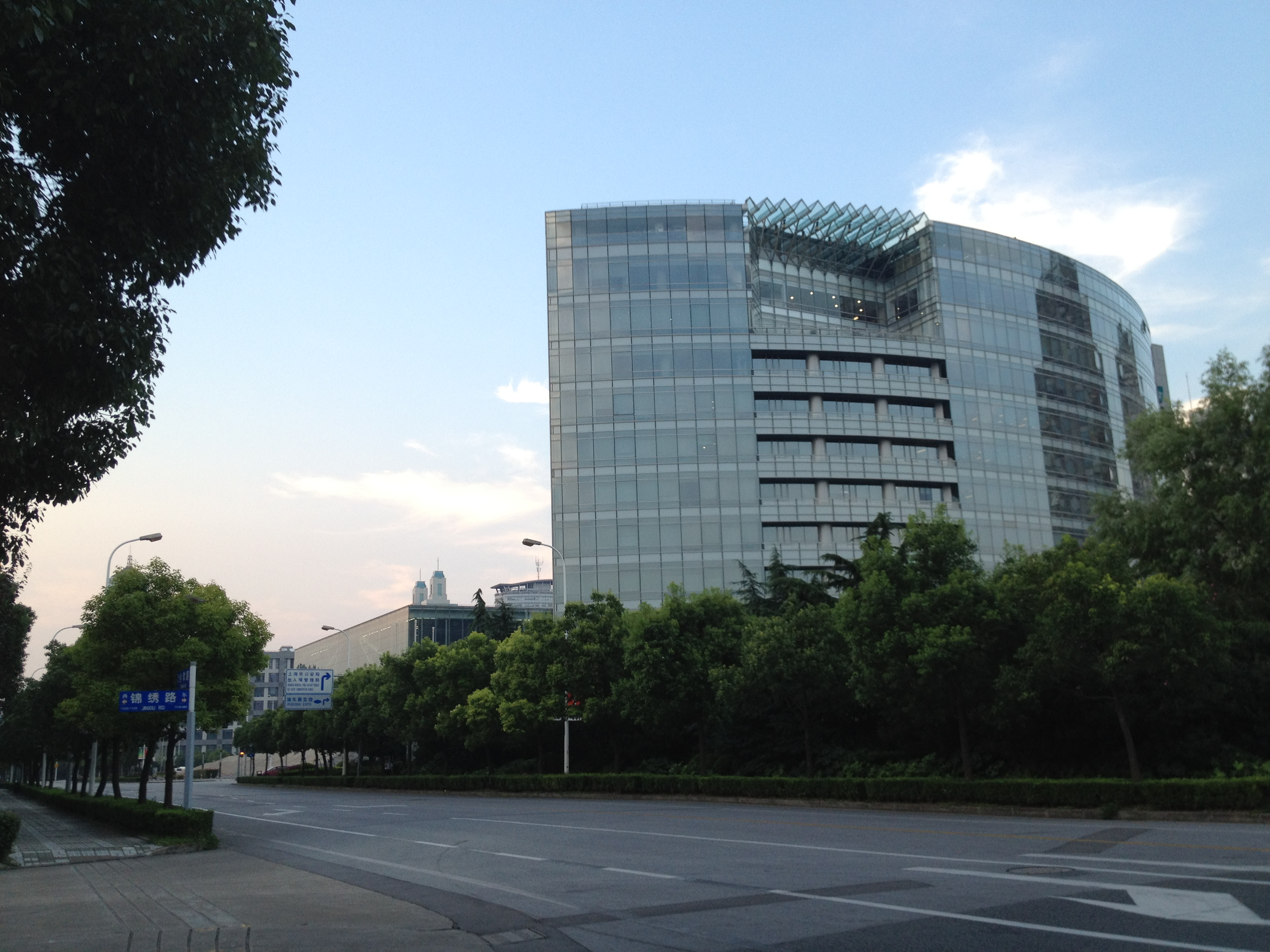 Hehuan Road Shanghai